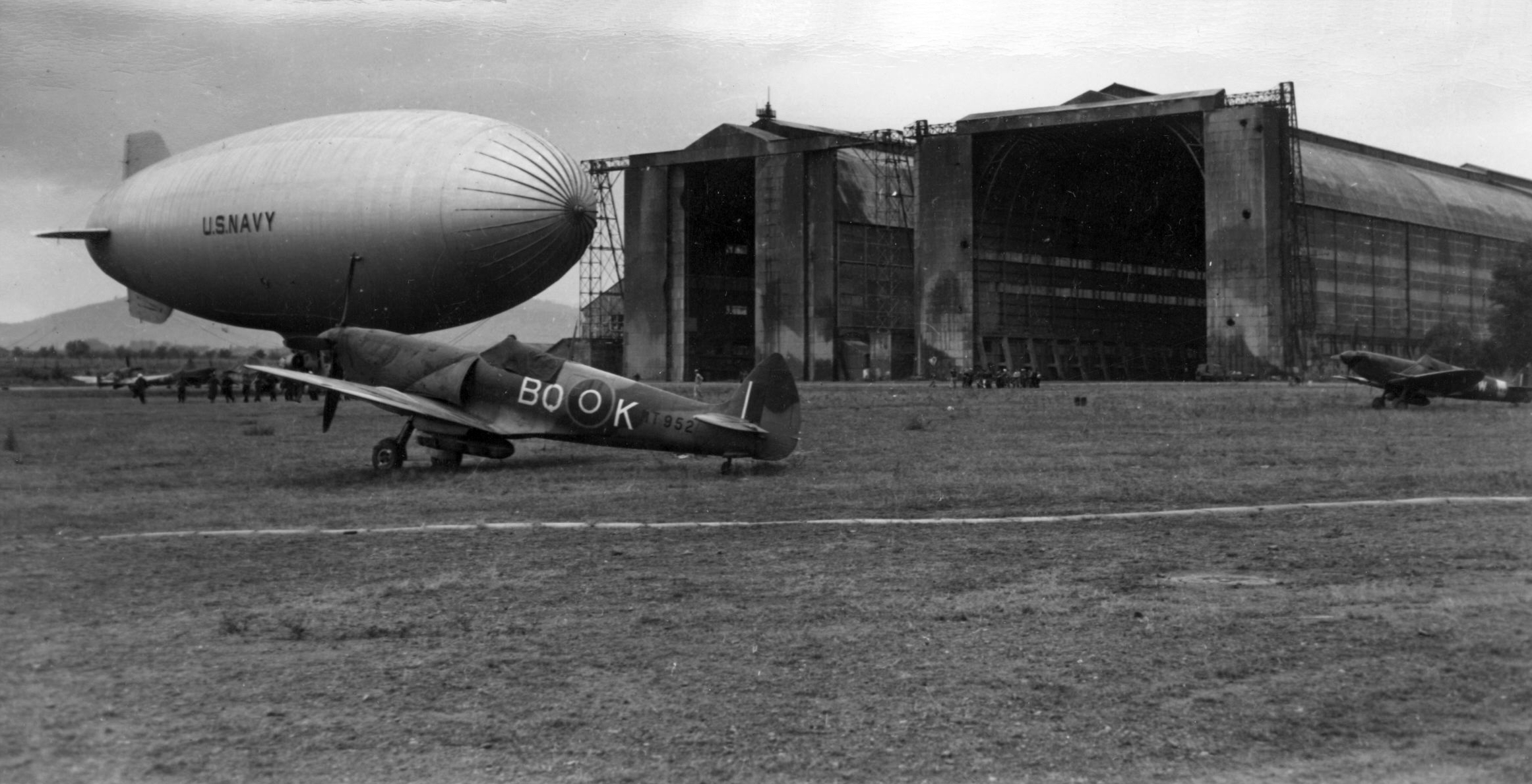 View of the French naval air base Cuers-Pierrefeu, located 5 km north of Toulon, in September 1944. The U.S. Navy blimp squadron 14 (ZP-14) was based at Cuers-Pierrefeu, blimp K-112 (shown) was the first to arrive on 17 September 1944. Also visible are Supermarine Spitfire LF Mk. VIII fighters of No. 451 Squadron, RAAF (in the forground is s/n MT952).